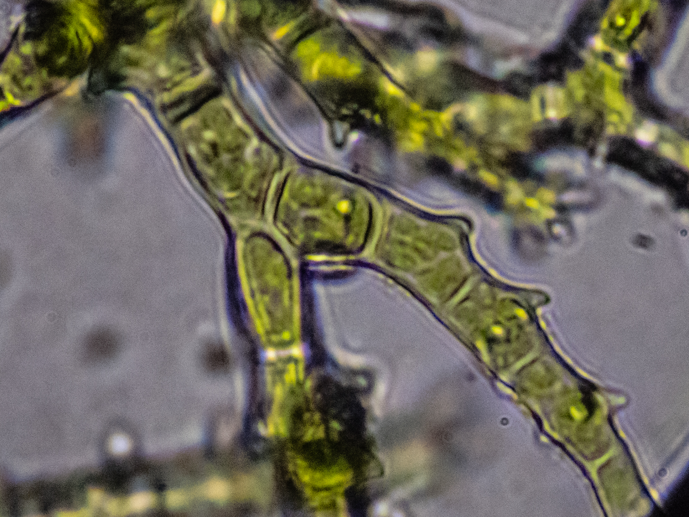 Thuidium delicatulum - paraphyllia